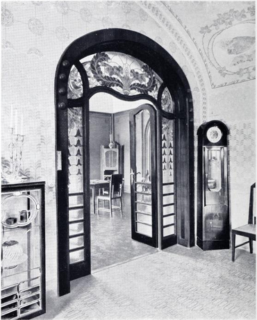 Door with glass mosaic